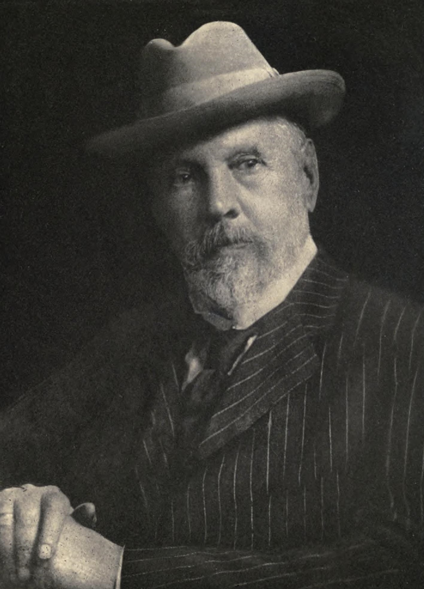 Sergei Witte